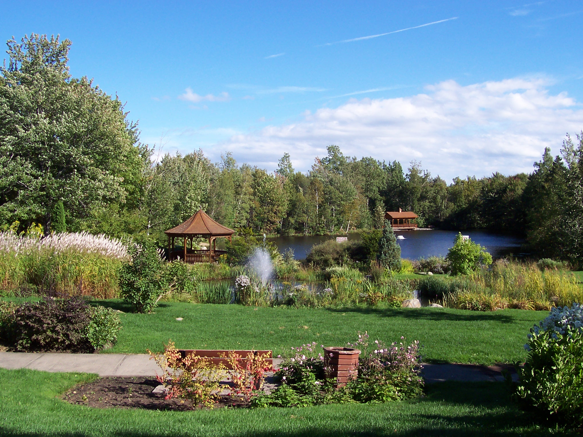 Belle-Eau park, Val-Bélair, Laurentien borough, Quebec City (Quebec, Canada), september 8th, 2007.